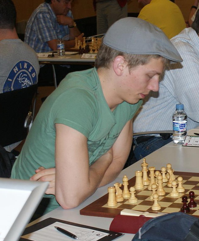 IM Helgi Dam Ziska (Faroe Islands), Andorra 2009